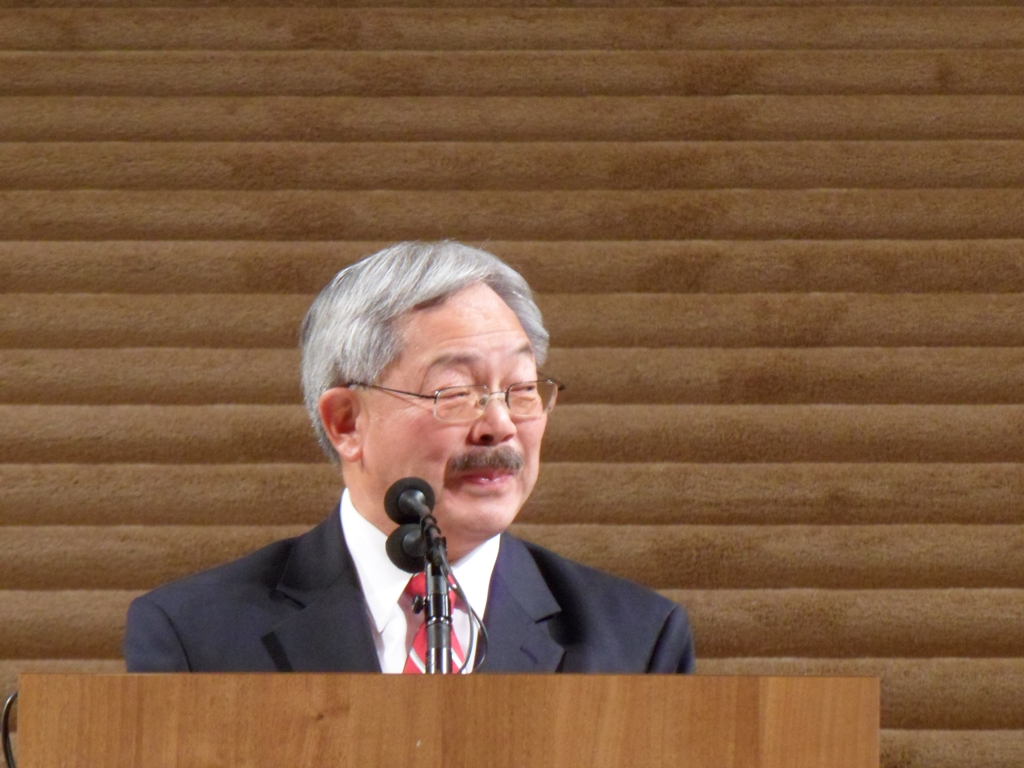 Mr Ed Lee, Mayor of San Francisco at the lighting ceremony for the Rainbow World Fund's World Tree of Hope on 10 December 2013 in San Francisco City Hall